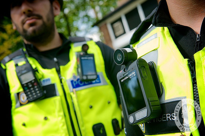 Officers in south Birmingham are trialing the use of body worn cameras to help in the fight against crime.